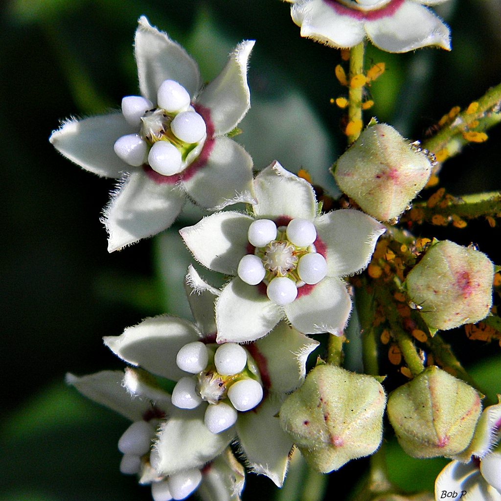 Sarcostemma clausum vine in the marsh at Frenchman's Forest Natural Area. This amazing milkweed is pretty common in all the local natural areas. It is ice cream to aphids and a fruity drink to flying insects.